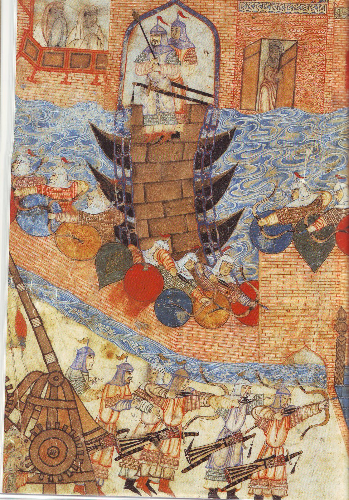 Persian painting of Hülegü’s army besieging a city. Note use of the siege engine.